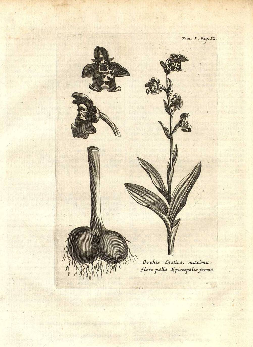 Tournefort, J. Pitton de (1717). Relation d'un voyage du Levant fait par ordre du roy, plate opposite page 12, depicting Orchis cretica maxima flore pallii (Ophrys episcopalis Poir.)